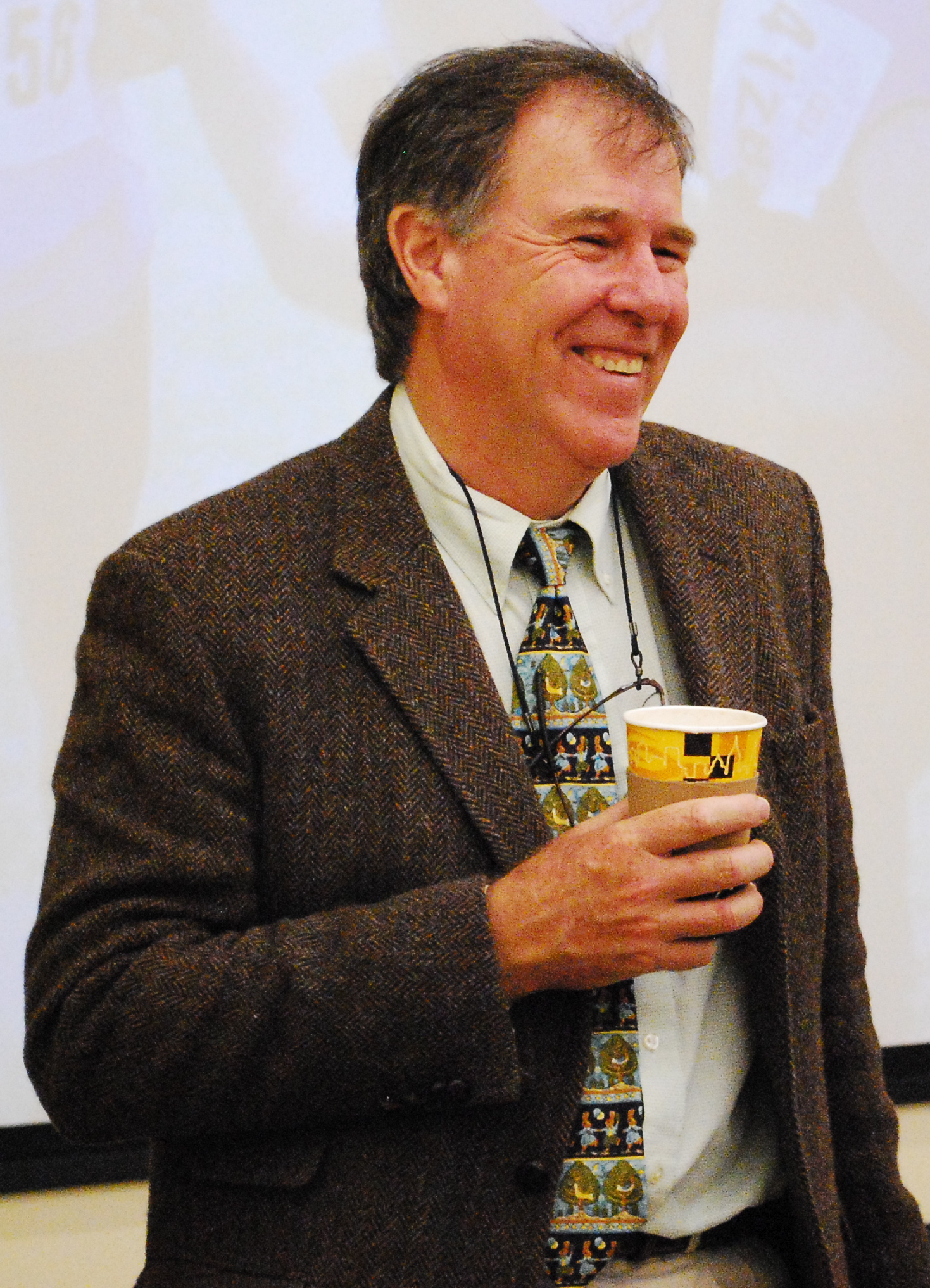 Dr. Tim Noakes at the Department of Physical Education at West Point shortly before delivering a lecture on Exercise Induced Hyponatremic Encethalopathy